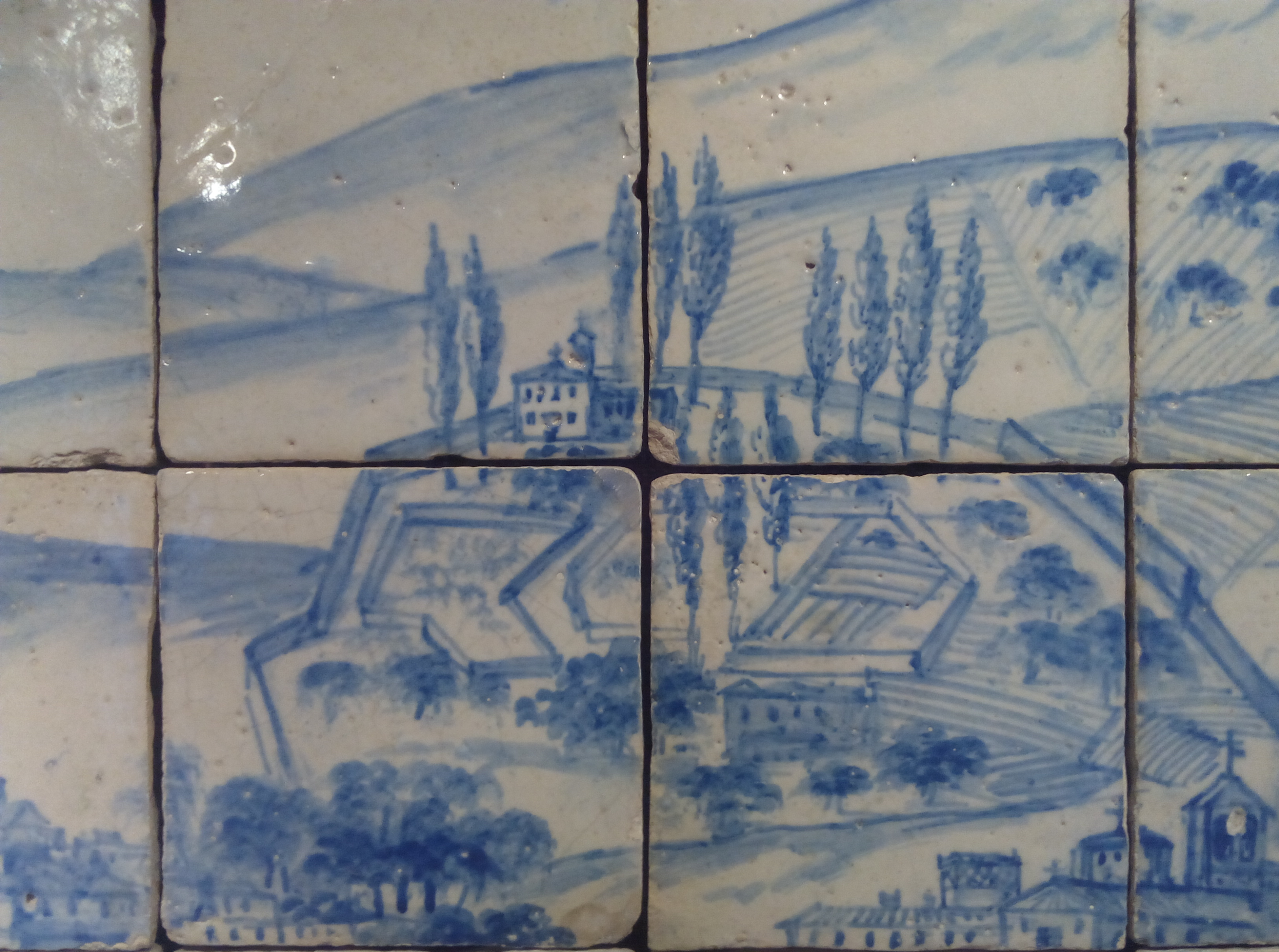 Depiction of the Chapel of Our Lady of Necessities (Ermida de Nossa Senhora das Necessidades), in Lisbon (today part of the Necessidades Palace), in an early 18th-century tile panel depicting a view of city. Currently in the National Tile Museum (Museu Nacional do Azulejo), in Lisbon, Portugal.